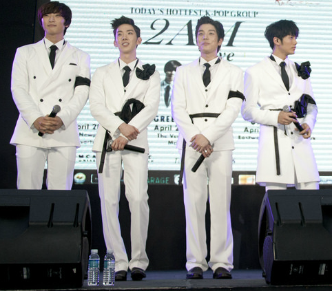 2AM in Manila from Apr. 28-30, 2011